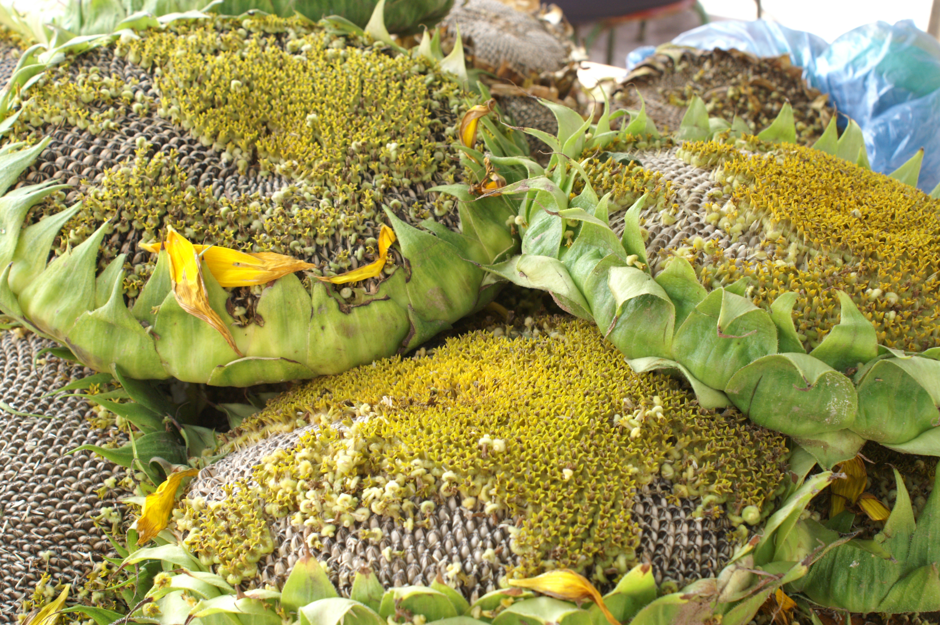 Sunflower heads (Helianthus annuus) sold as snacks in Pingyao, China.